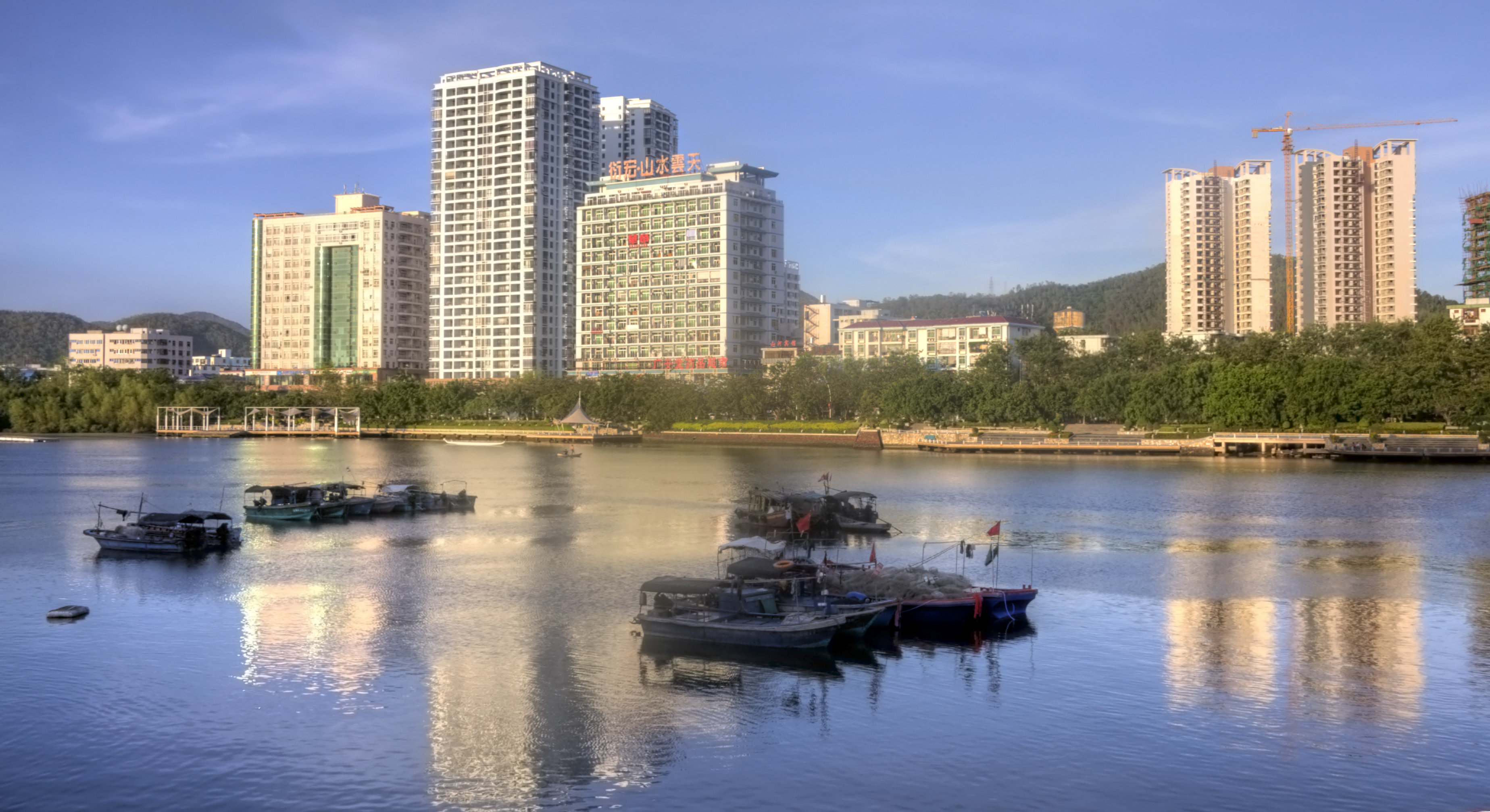 River and boats — in central Sanya, Hainan Province, Southeast China.